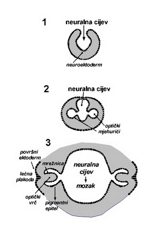 Shema embrionalnog razvoja oka